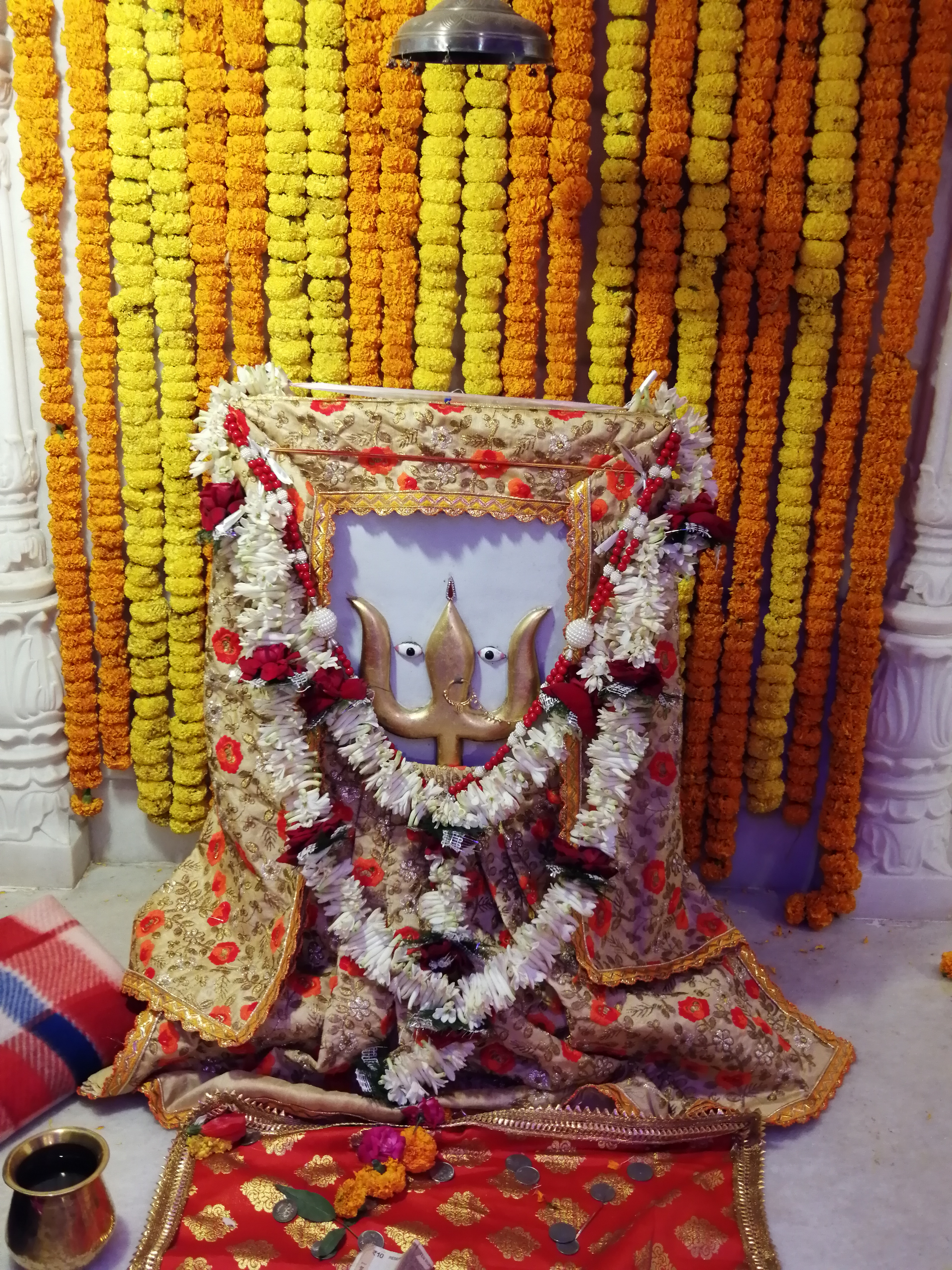 Shree rani sati 01.01.2019